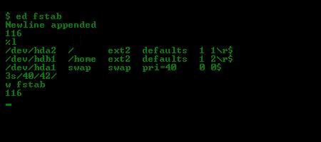 Pseudo-commands to illustrate how line-by-line text editing works.